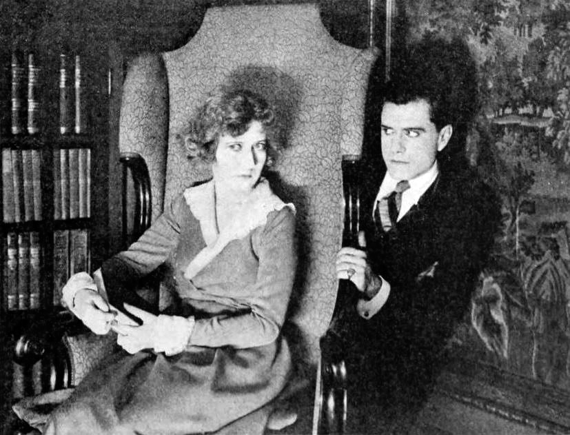 Still from the American comedy drama film Boston Blackie's Little Pal (1918) with Rhea Mitchell and Bert Lytell, on page 39 of the August 17, 1918 Exhibitors Herald.